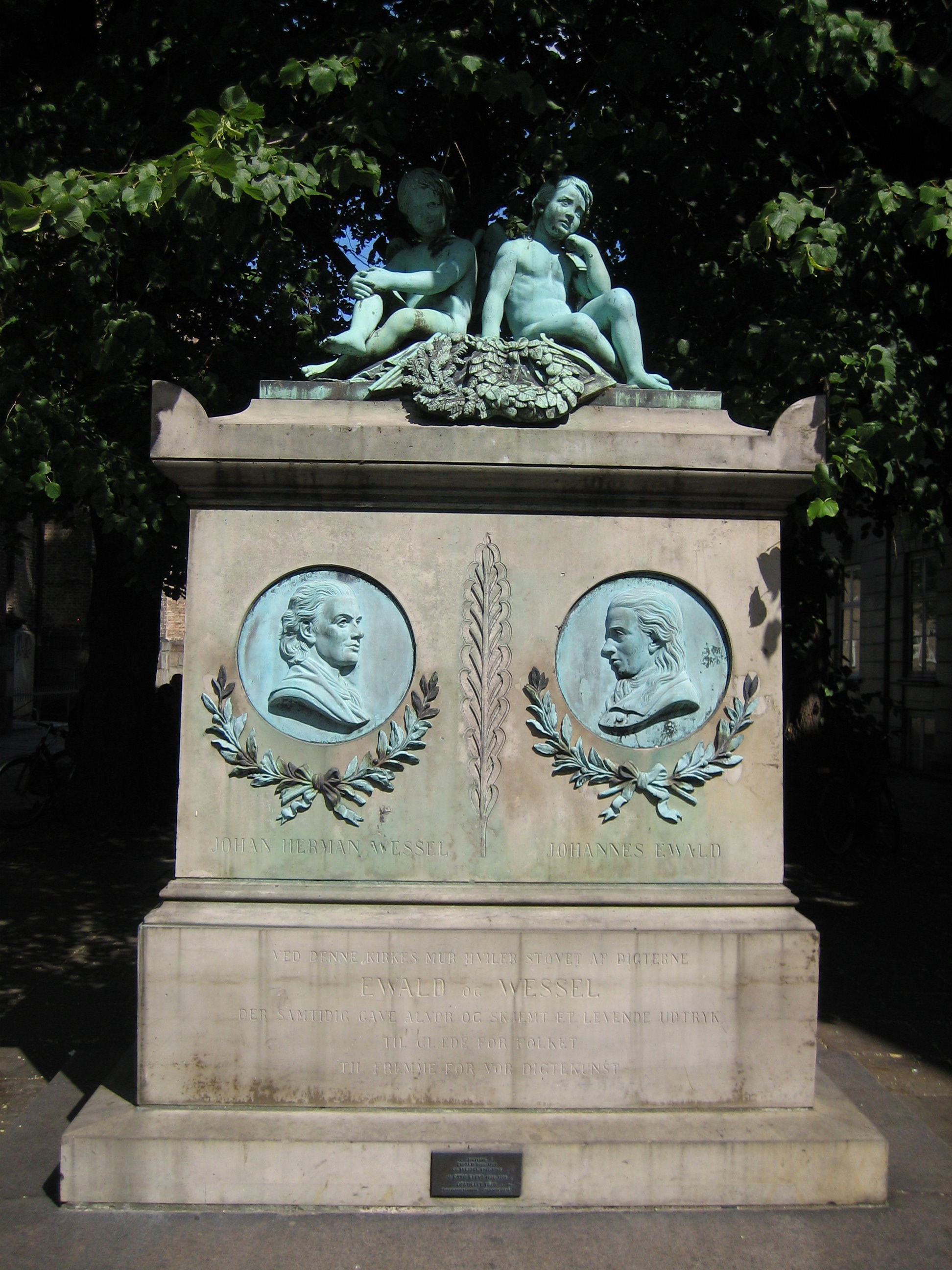 The Ewald and Wessel Monument at Trinitatis Church Square in Copenhagen, Denmark